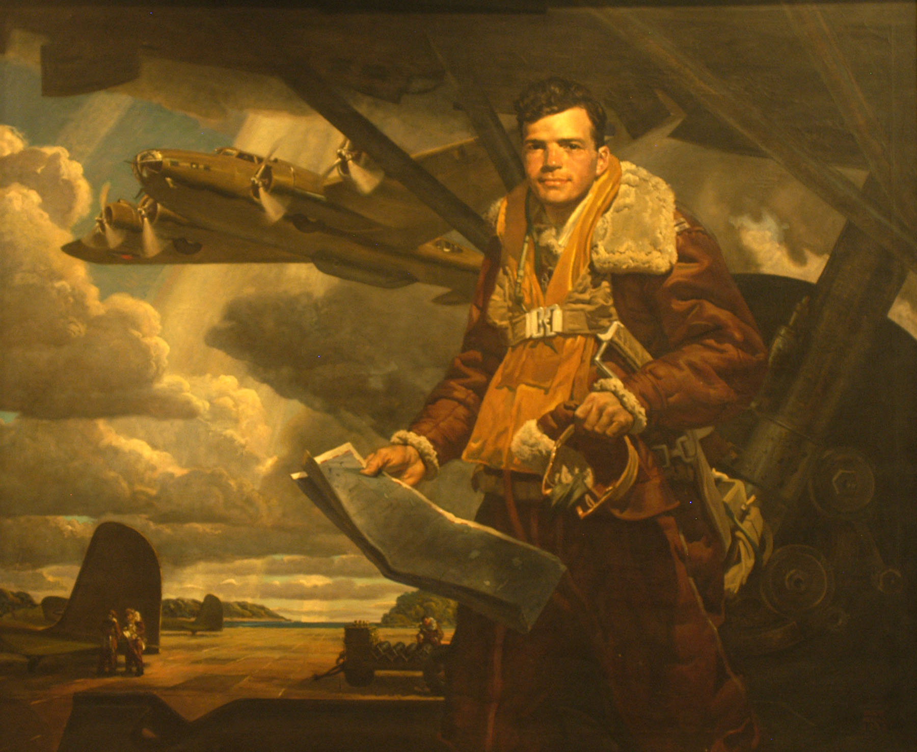 This painting of Capt. Colin P. Kelly, Jr., hanging in the Air Power Gallery at the National Museum of the U.S. Air Force, was painted by Deane Keller of Yale University. (U.S. Air Force photo).